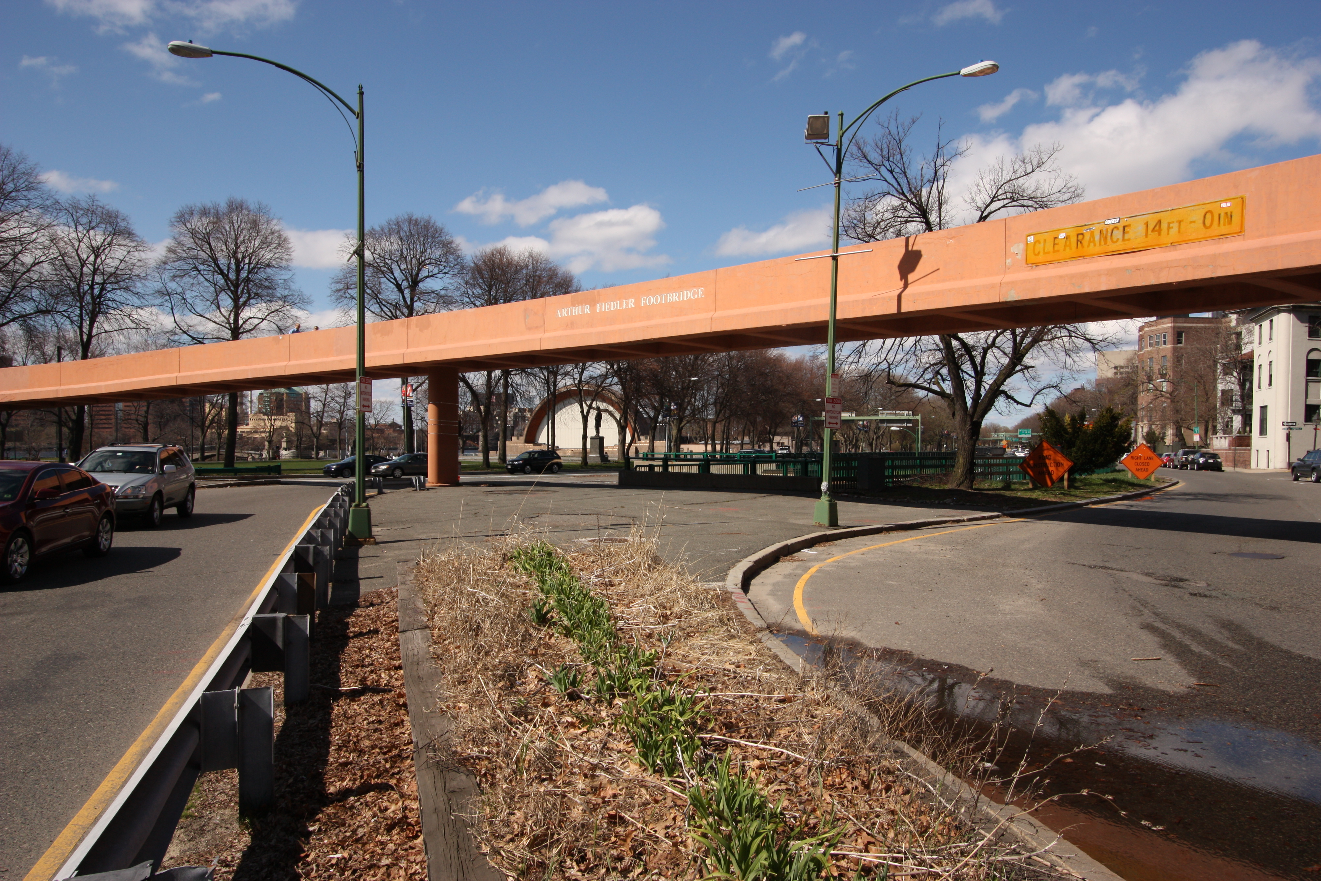 A footbridge commemorating Arthur Fiedler. Part of the Wikipedia Takes Boston scavenger hunt.